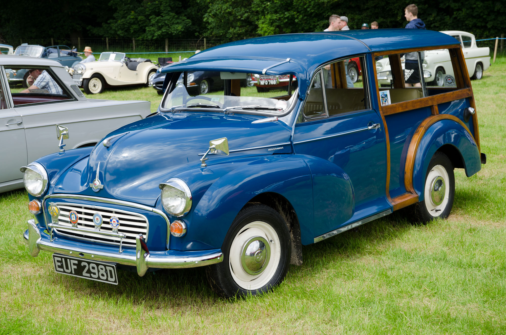 Hoghton Tower Classic Car show 22/06/2014